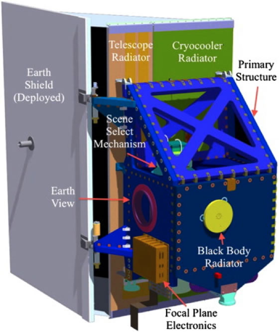 The Thermal Infrared Sensor (TIRS) was added to the LDCM payload to continue thermal imaging and to support emerging applications such as evapotranspiration rate measurements for water management. TIRS was built by NASA GSFC and it has a three-year design life. The 100 m TIRS data will be registered to the OLI data to create radiometrically, geometrically, and terrain-corrected 12-bit LDCM data products.